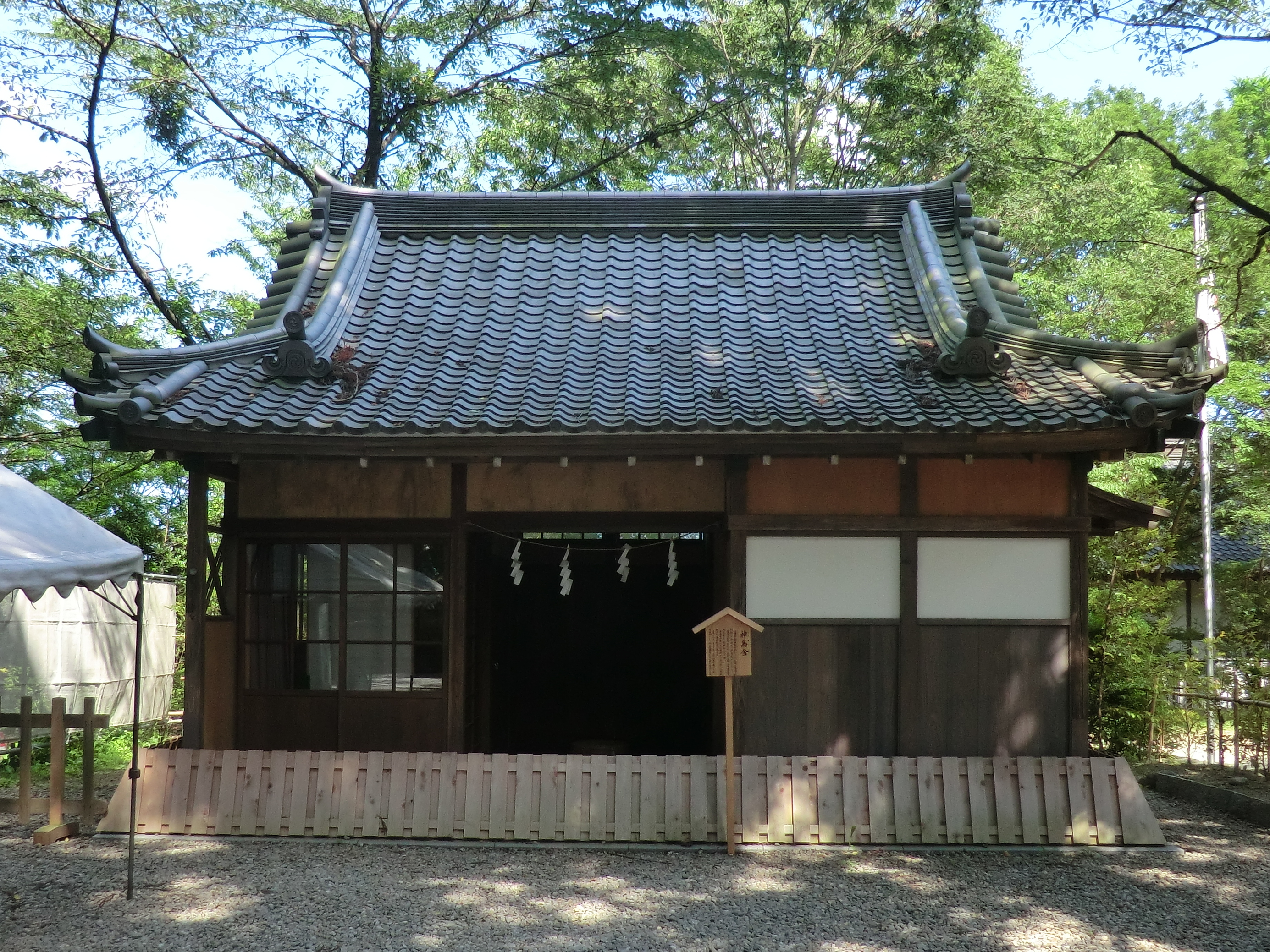 A shinme-sha of Ōsaki Hachiman-gū